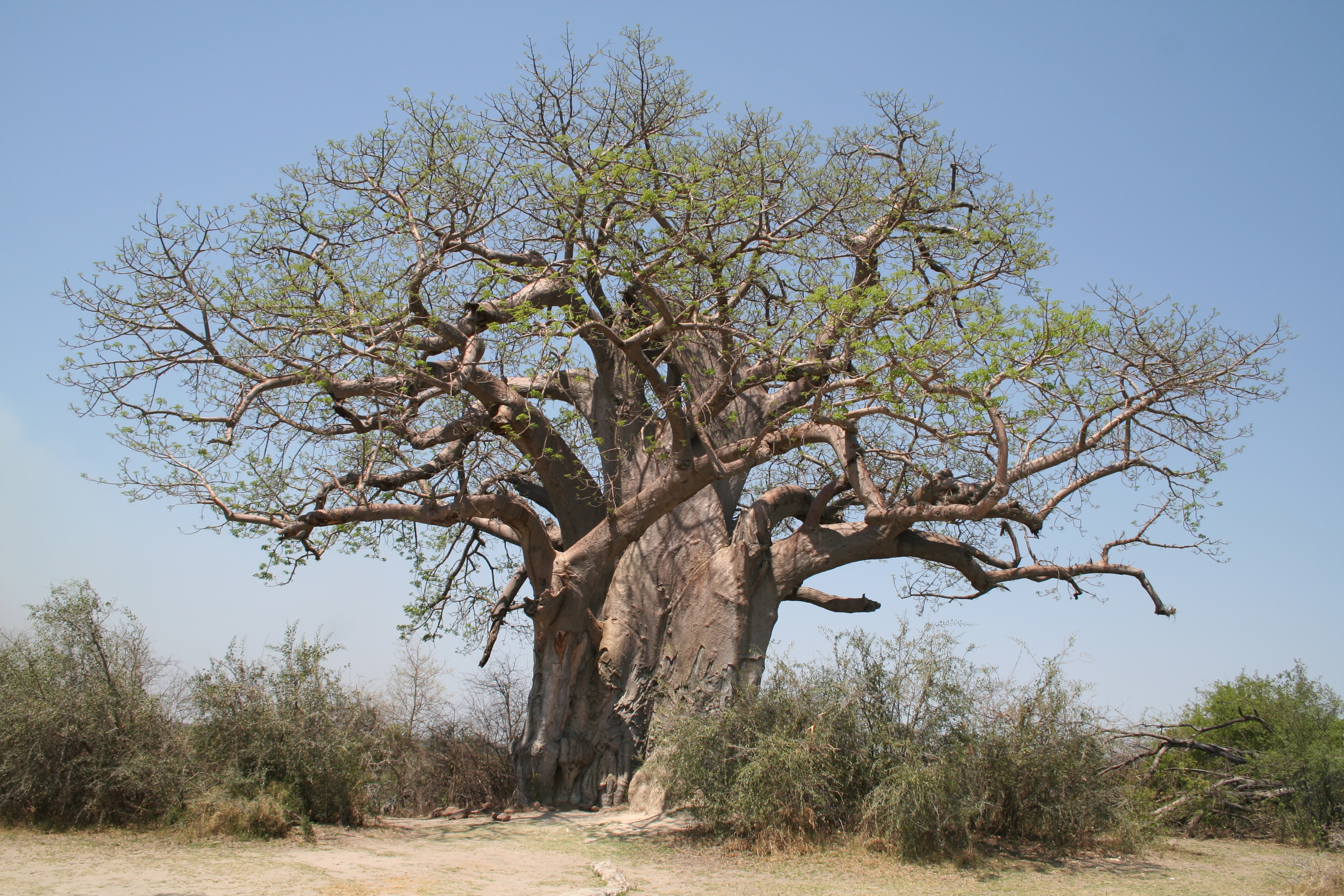 A Baobab tree, Adansonia digitata, at Mahango National Park, Okavango Delta, Namibia.